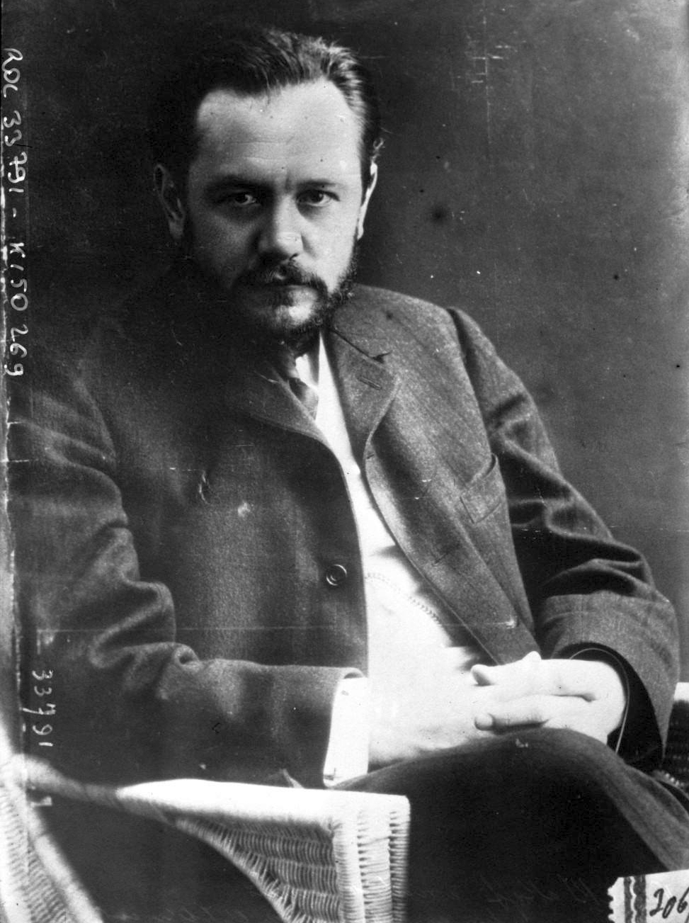 Vasily Maklakov